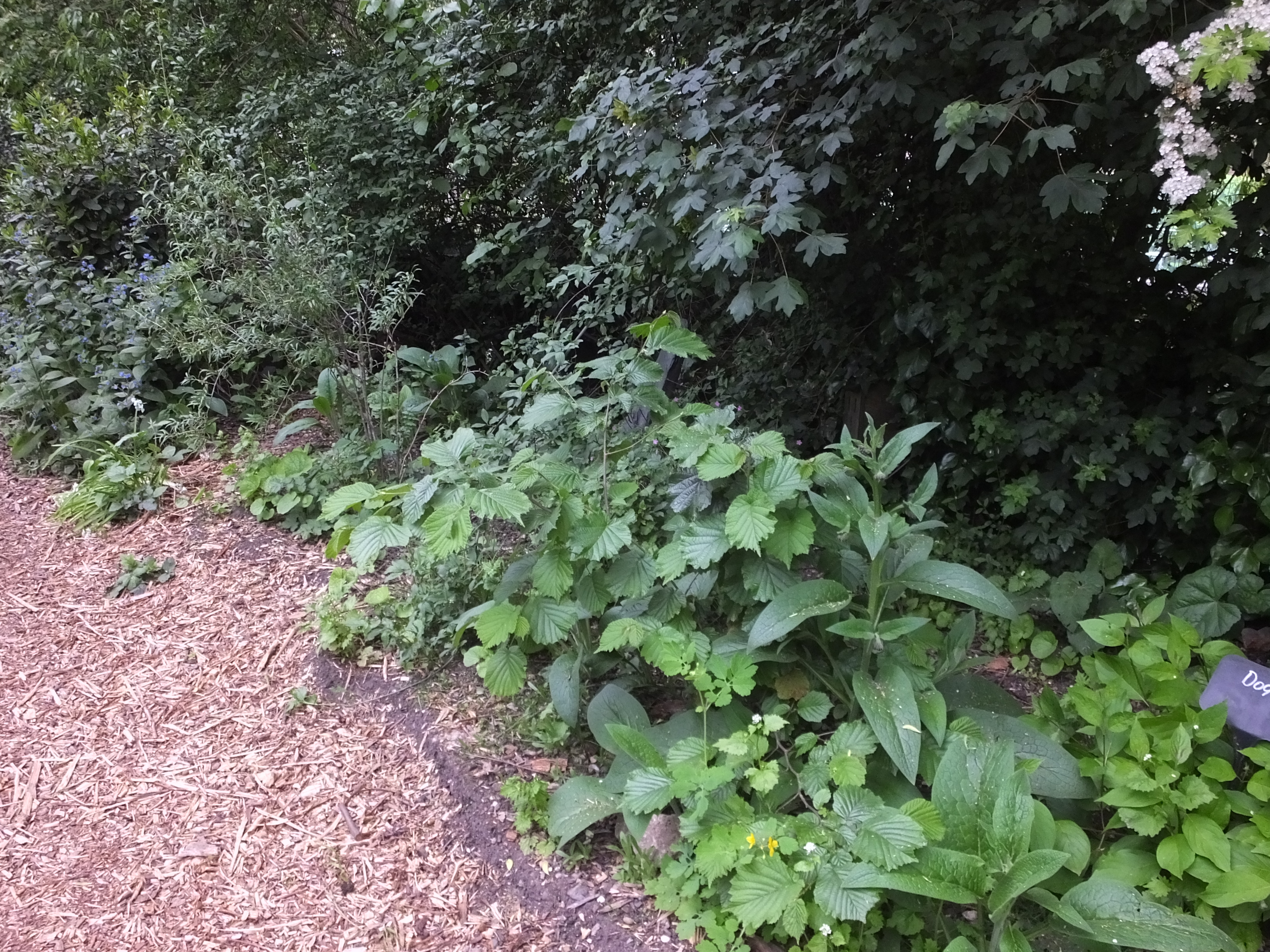 Camley Street Natural Park in Camden North London run by the London Wildlife Trust a few toddler paces fromSt Pancras International. (geotags approximate! )